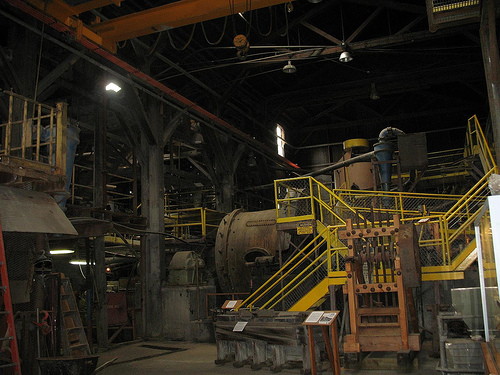 The Ball Mill inside the Mayflower Mill in Silverton Colorado.